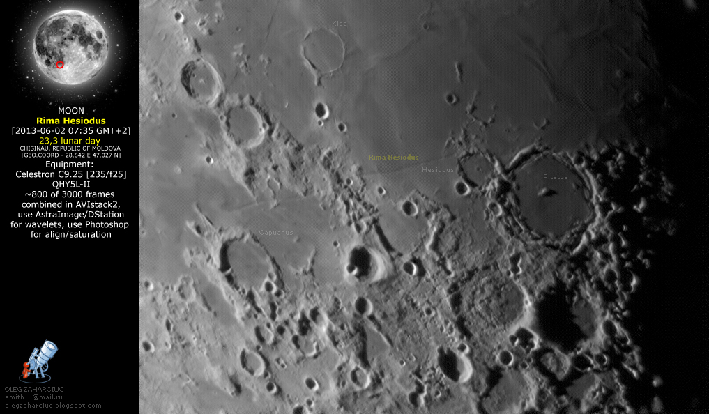 Rima Hesiodus